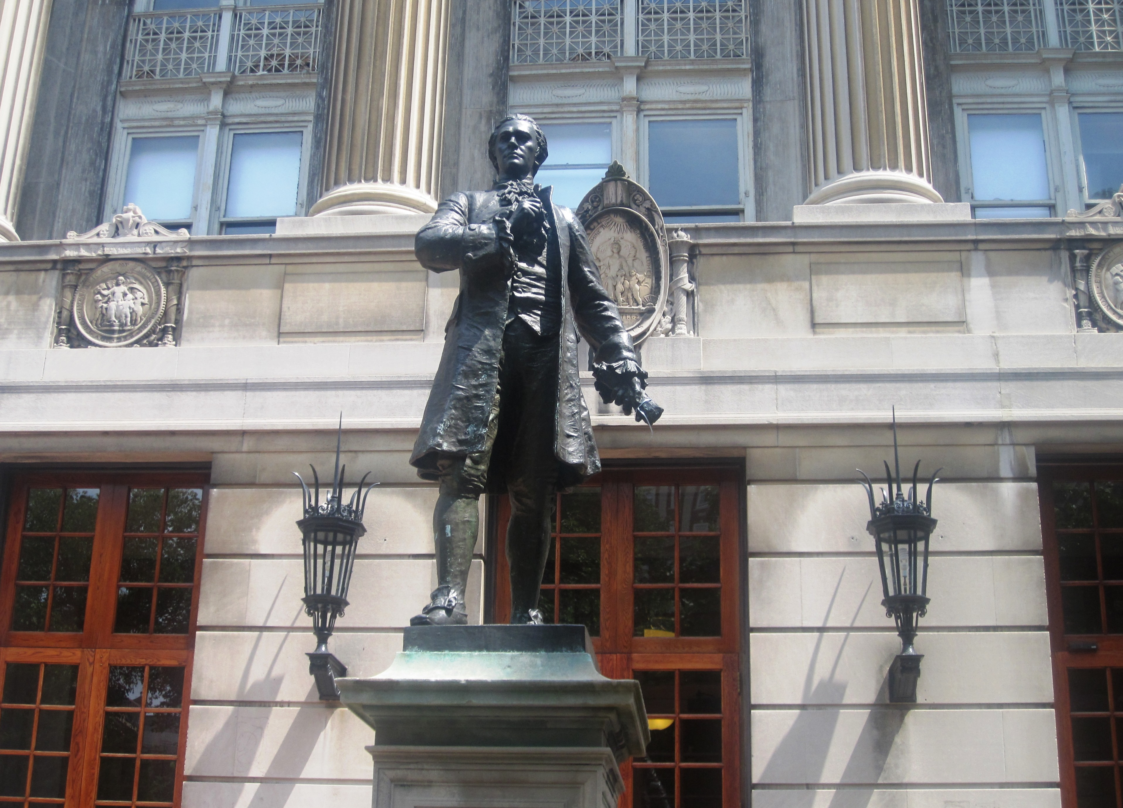 Statue of Alexander Hamilton by William Ordway Patridge standing outside of Columbia University's Hamilton Hall